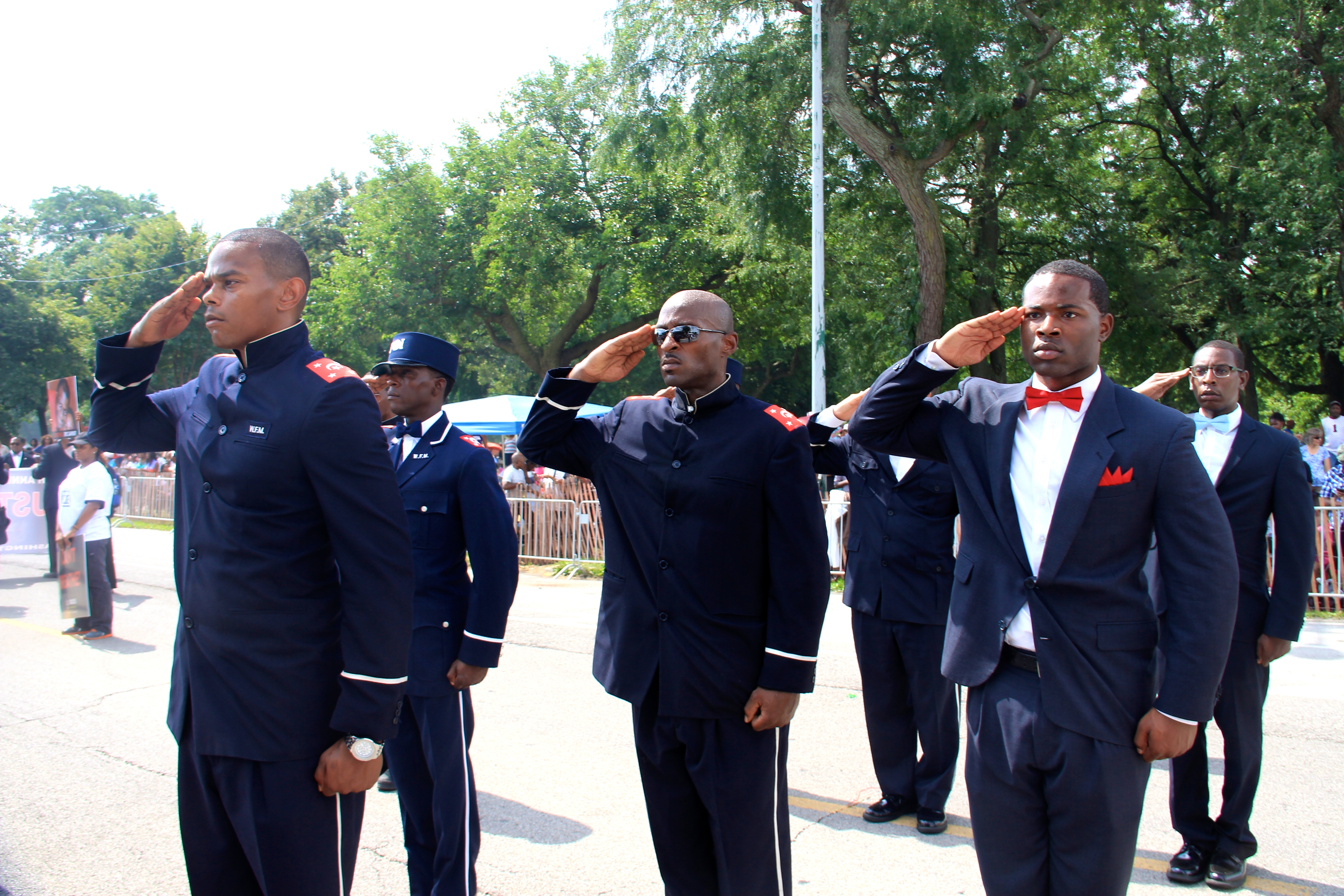 Nation of Islam at the Bud Billiken Parade 2015